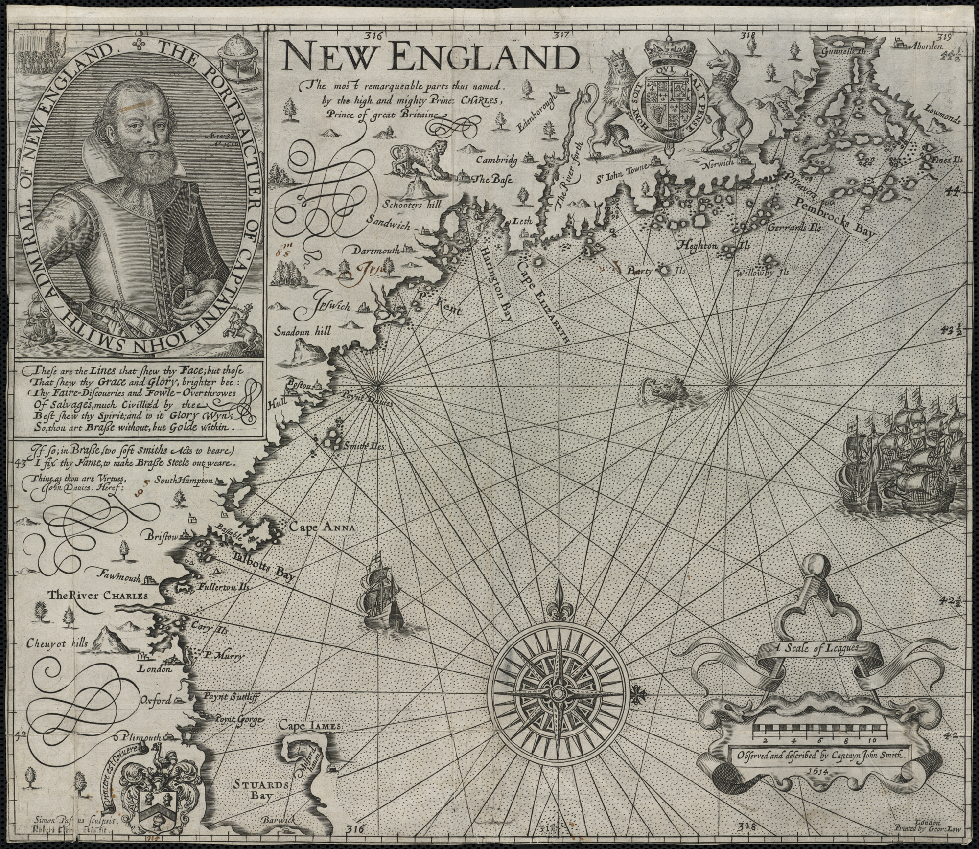 Zoom into this map at . Author: Smith, John Publisher: Printed by Geor. Low Date: [1624] Location: New England Scale: Scale [ca. 1:1,120,000] Call Number: G3720 1624.S6 Based on John Smiths 1614 voyage along the New England coast, this is the first printed map devoted specifically to this region. It is also the first to use the name “New England”for an area that had up until this time been called “North Virginia.”Smith, who is more commonly associated with the founding of Virginia, was commissioned to survey the coastline north of New York in preparation for the settlement of another English colony. This map was used to guide the Pilgrims to Plymouth and also led John Winthrop to the Charles River in 1629.